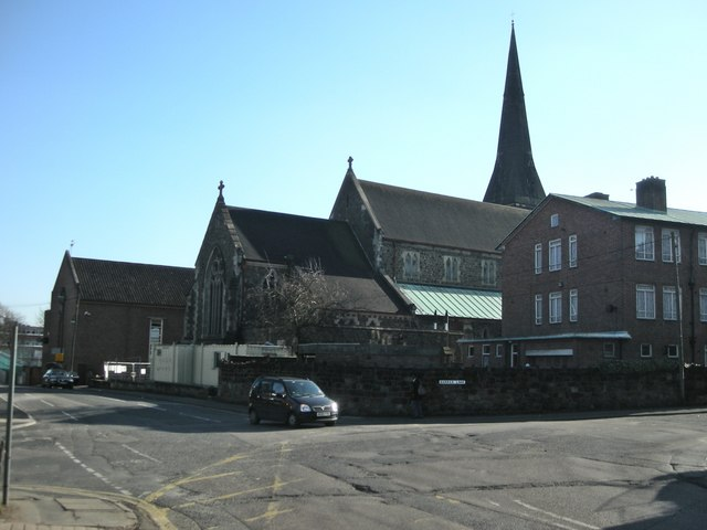 Coventry-Saint Osburg's Roman Catholic Church